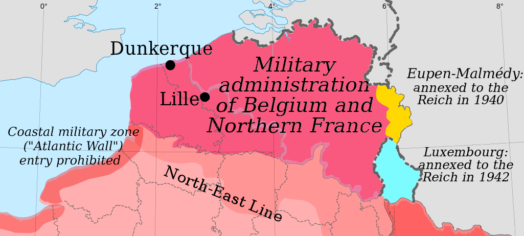 based on File:France map Lambert-93 with regions and departments-occupation Belgium.png